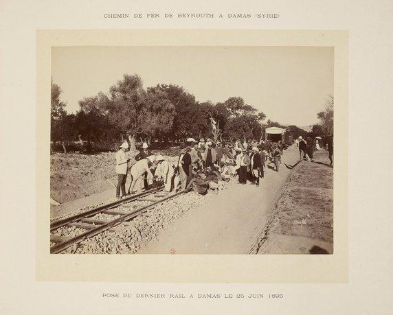 Laying the last rail of the Beirut Railway in Damascus on June 25, 1895. The line began operation August 3.